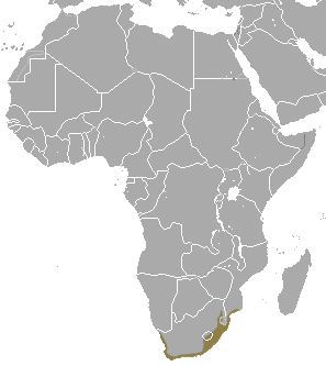 Greater Red Musk Shrew (Crocidura flavescens) range